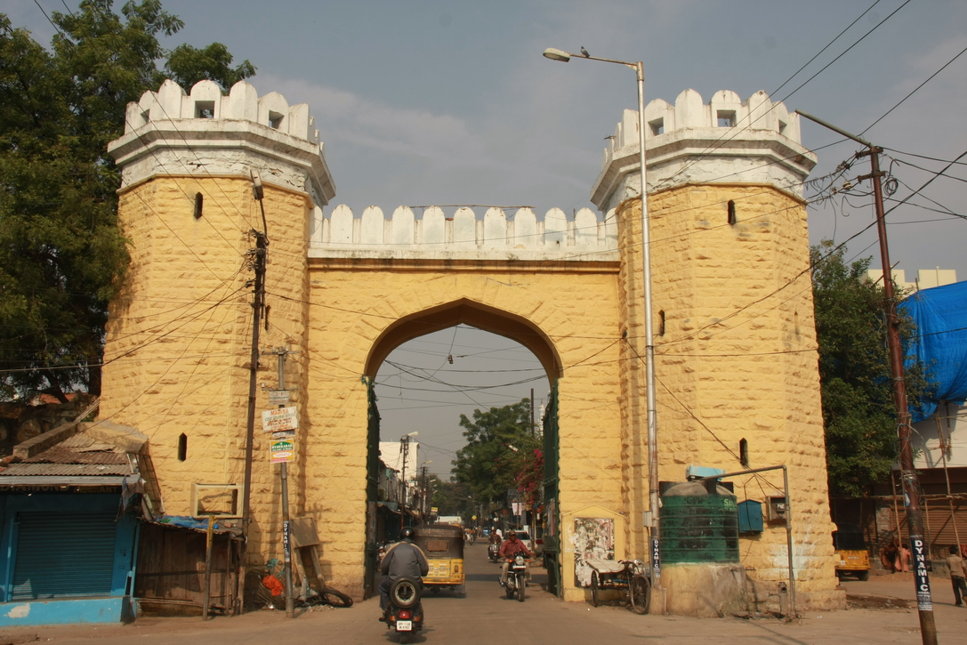 Old Gate of Dabirpura